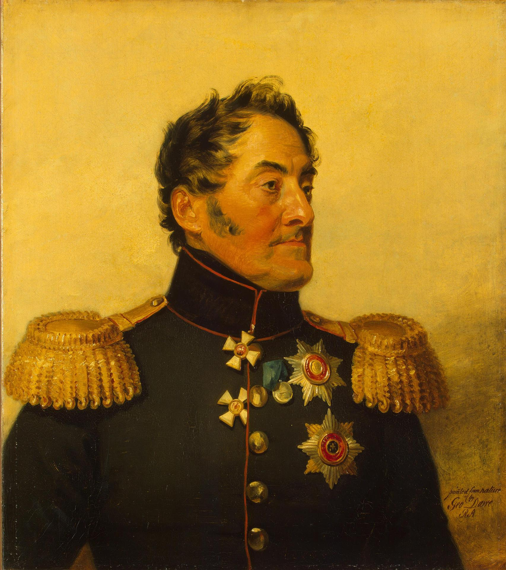 Yashvil Lev (1768—1836) Russian general by Geo Dawe 1823-1825 S-Peterburg, Winter Palace War Gallery